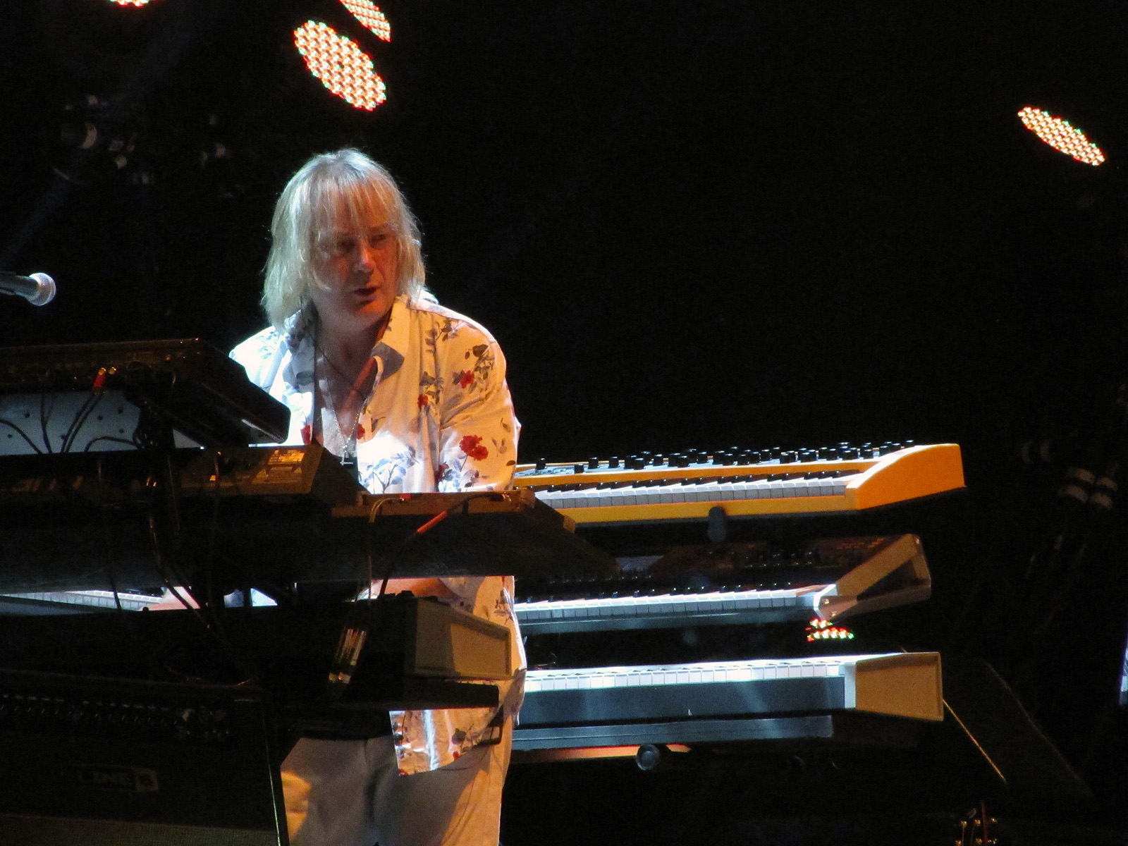 Yes concert at Massey Hall, Toronto, Ontario